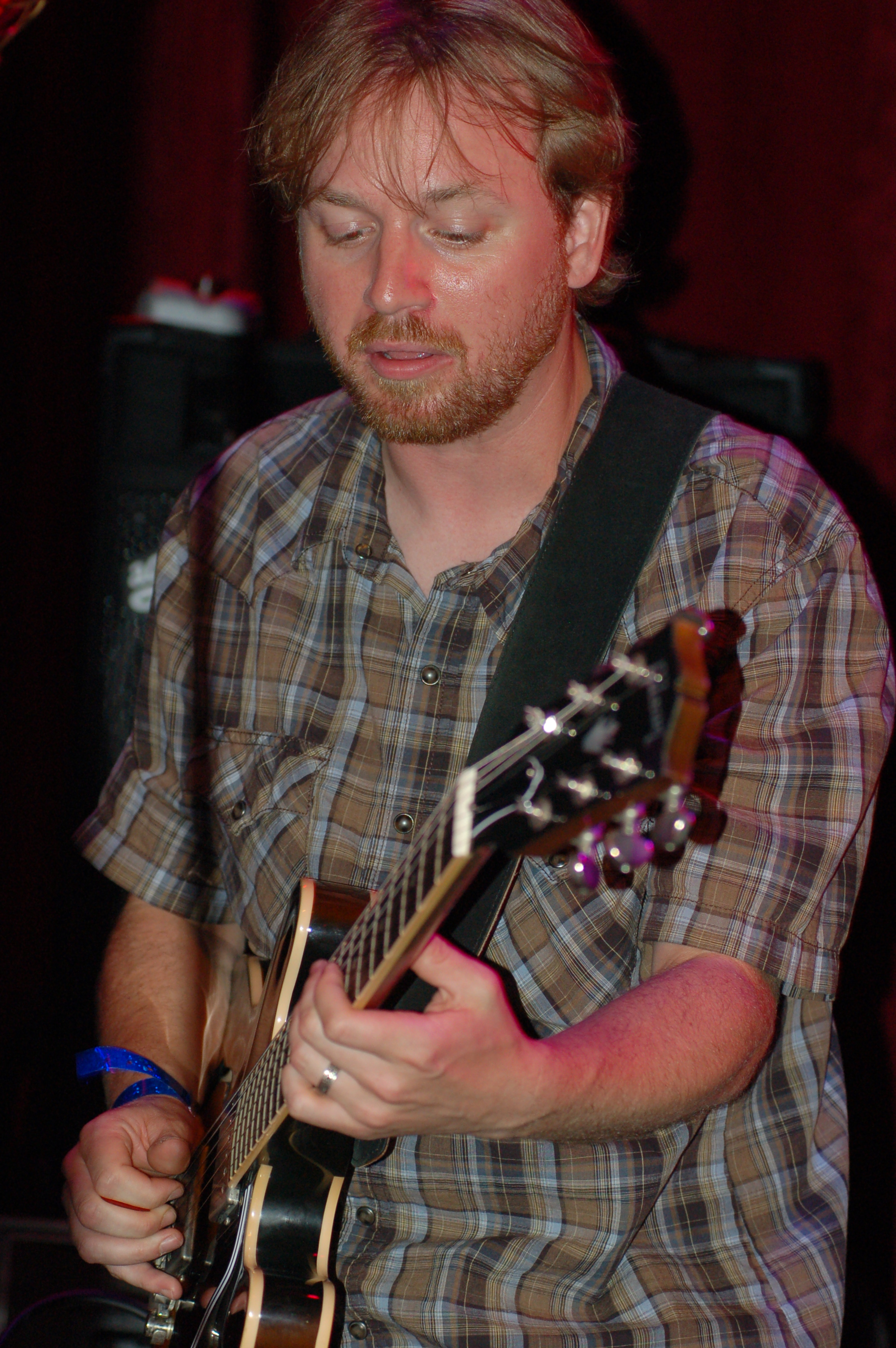 Jake Eckert performing with the Dirty Dozen Brass Band in 2009